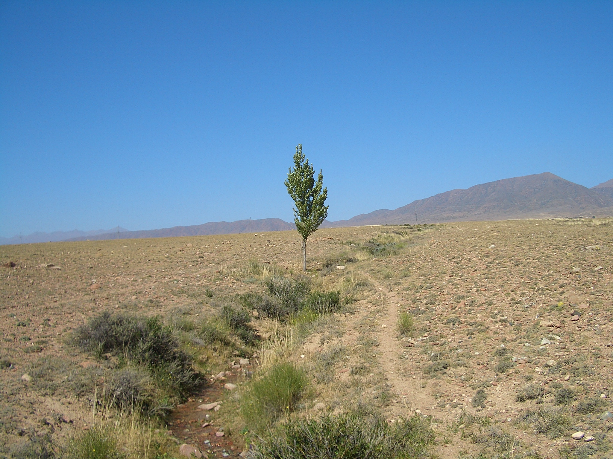 A lonely tree in the desert outside of Tamchy. (It gets water from an aryk - a channelled stream - that flowes next to it).